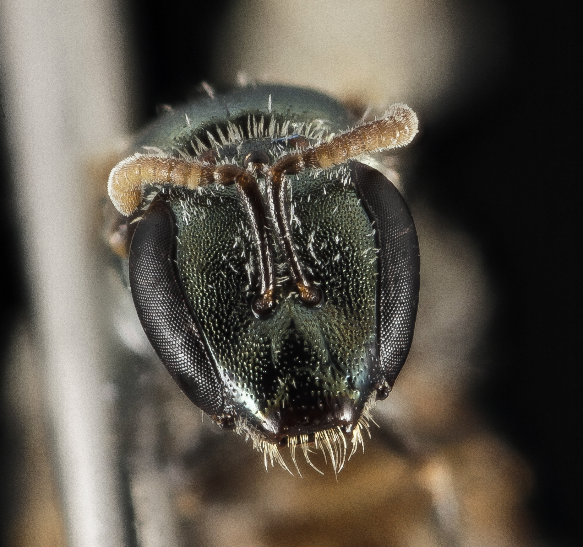 Lasioglossum brunneiventre. Small, long head, found in the Mojave National Preserve in studies of sandy areas in National Parks. Photographs by Brooke Alexander. 00:50, 1 July 2017 (UTC)00:50, 1 July 2017 (UTC) 0 00:50, 1 July 2017 (UTC)00:50, 1 July 2017 (UTC) All photographs are public domain, feel free to download and use as you wish. Photography Information: Canon Mark II 5D, Zerene Stacker, Stackshot Sled, 65mm Canon MP-E 1-5X macro lens, Twin Macro Flash in Styrofoam Cooler, F5.0, ISO 100, Shutter Speed 200 Beauty is truth, truth beauty - that is all Ye know on earth and all ye need to know " Ode on a Grecian Urn" John Keats You can also follow us on Instagram - account = USGSBIML Want some Useful Links to the Techniques We Use? Well now here you go Citizen: Art Photo Book: Bees: An Up-Close Look at Pollinators Around the World Basic USGSBIML set up: USGSBIML Photoshopping Technique: Note that we now have added using the burn tool at 50% opacity set to shadows to clean up the halos that bleed into the black background from "hot" color sections of the picture. PDF of Basic USGSBIML Photography Set Up: ftp://ftpext.usgs.gov/pub/er/md/laurel/Droege/How%20to%20Take%20MacroPhotographs%20of%20Insects%20BIML%20Lab2.pdf Google Hangout Demonstration of Techniques: or Excellent Technical Form on Stacking: Contact information: Sam Droege 301 497 5840